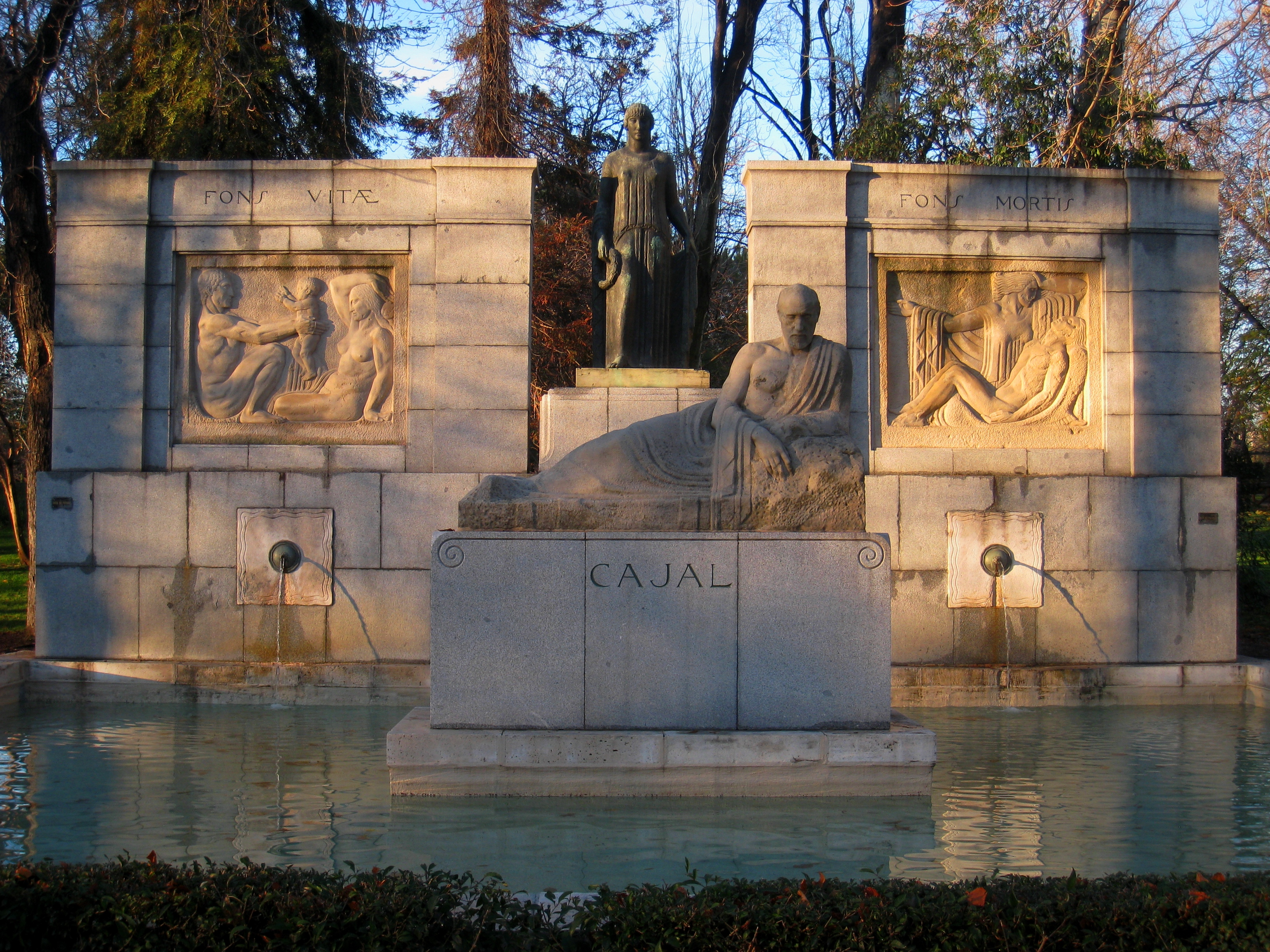 Front view of the Monument to Santiago Ramón y Cajal (1852–1934) at Paseo de Venezuela (a walk) in the Retiro Park (Jardines del Buen Retiro) in Madrid (Spain). Made by sculptor Victorio Macho and inaugurated in 1926.